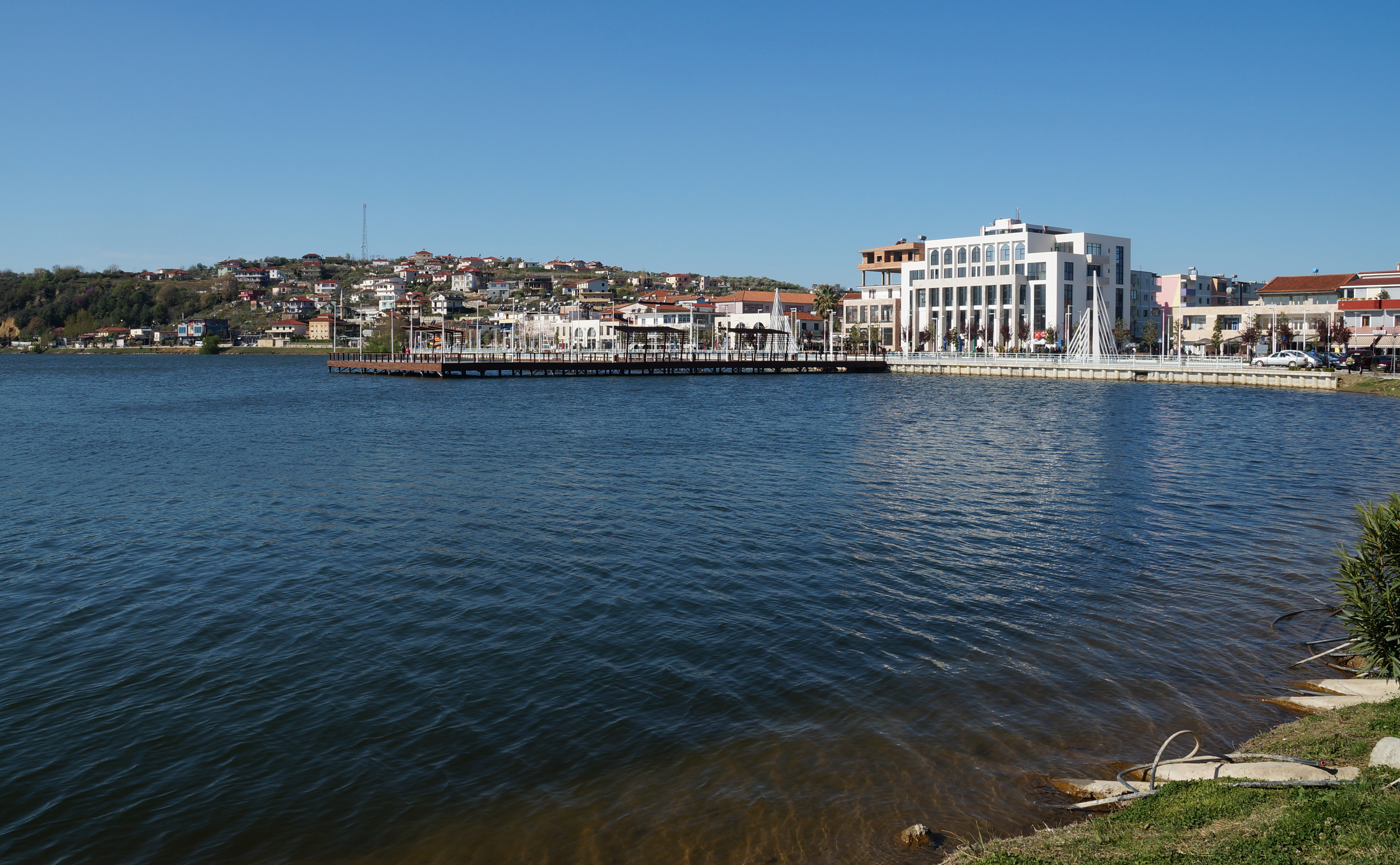 The refurbished center of Belsh with its lake, Albania